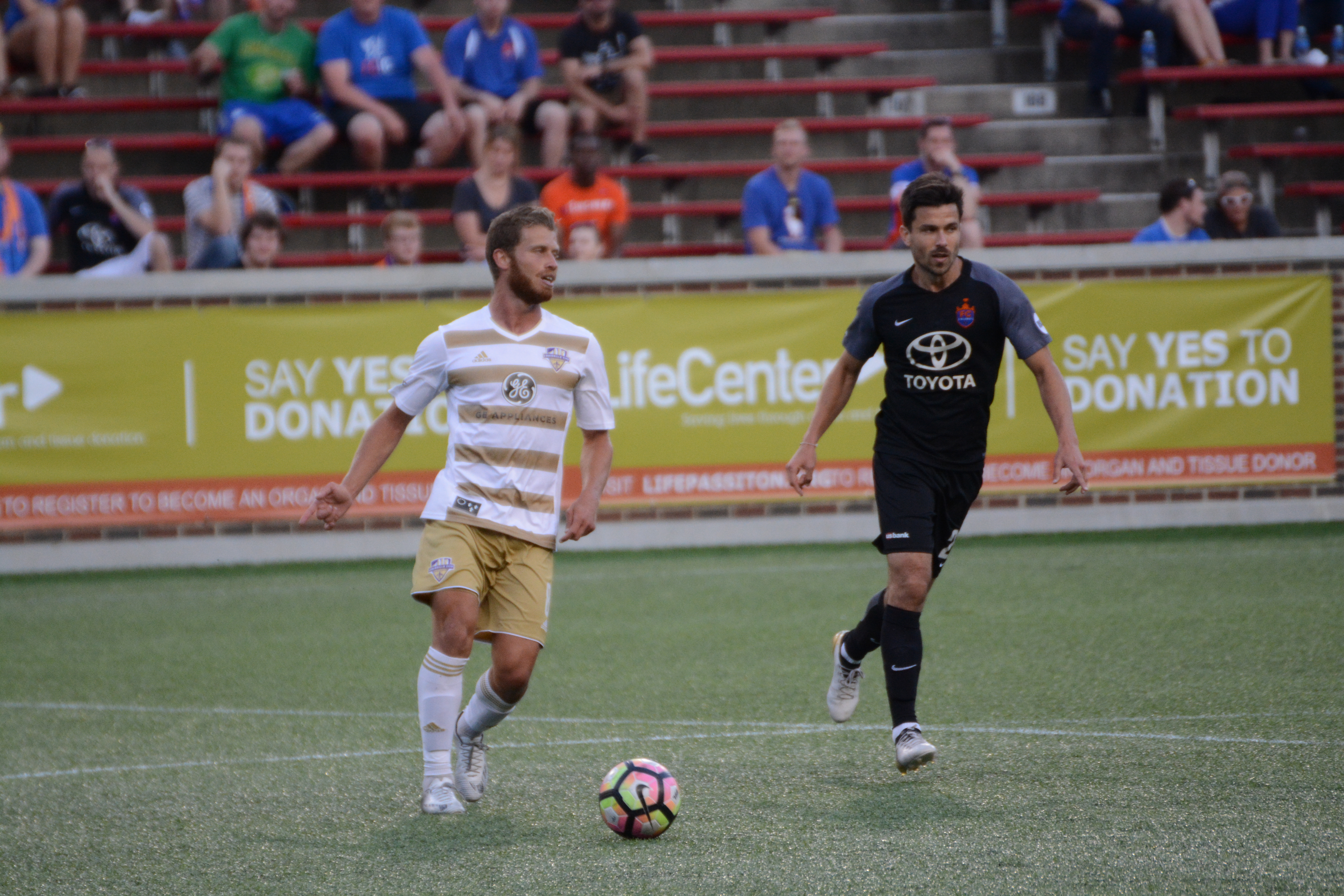 Guy Abend, Andrew Wiedeman Taken at a Lamar Hunt U.S. Open Cup match between FC Cincinnati and Louisville City FC at Nippert Stadium in Cincinnati, Ohio on May 31, 2017.